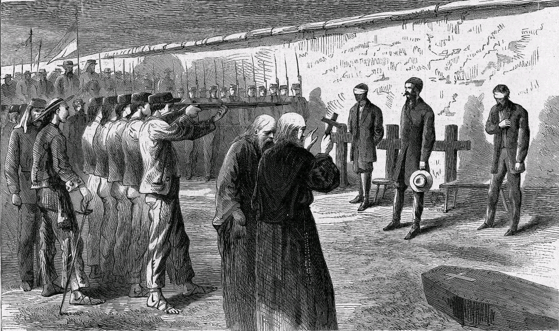 Print of the execution of Maximilian in Santiago de Querétaro, Mexico. Original caption: "Execution of Maximilian, Mejia, and Miramon at Queretaro, Mexico (June 19, 1867)".